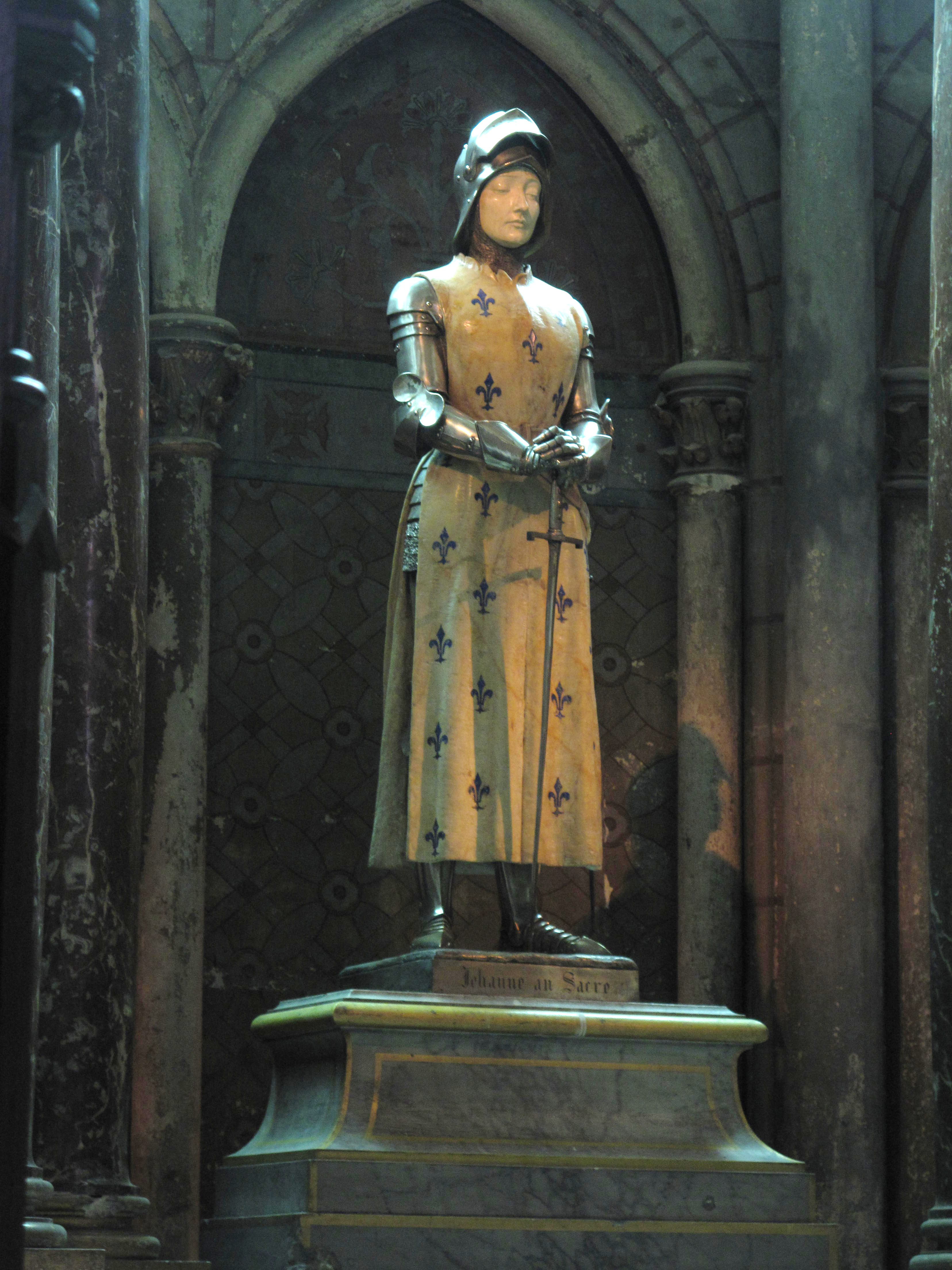 Statue of Joan of Arc in Reims cathedral (Marne, France).